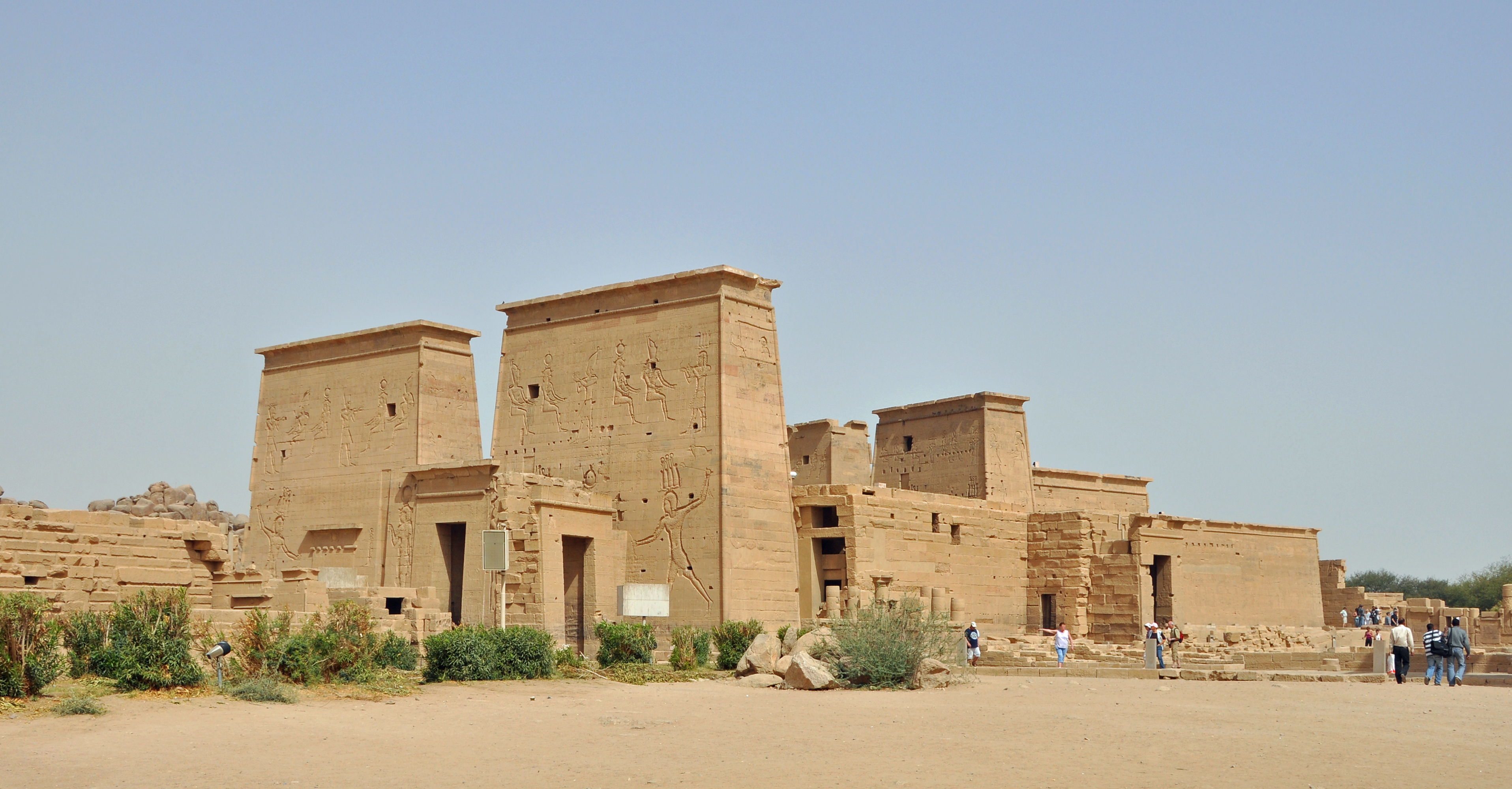 Aswan (Egypt): Philae Temple